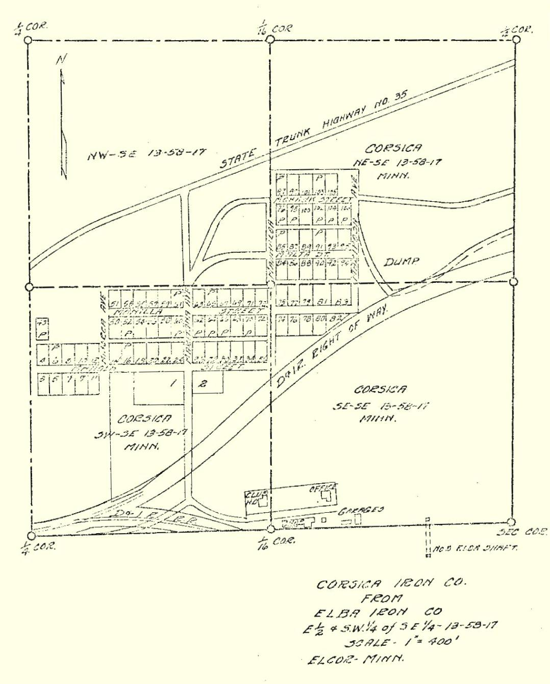 Elcor, Minnesota townsite plat.